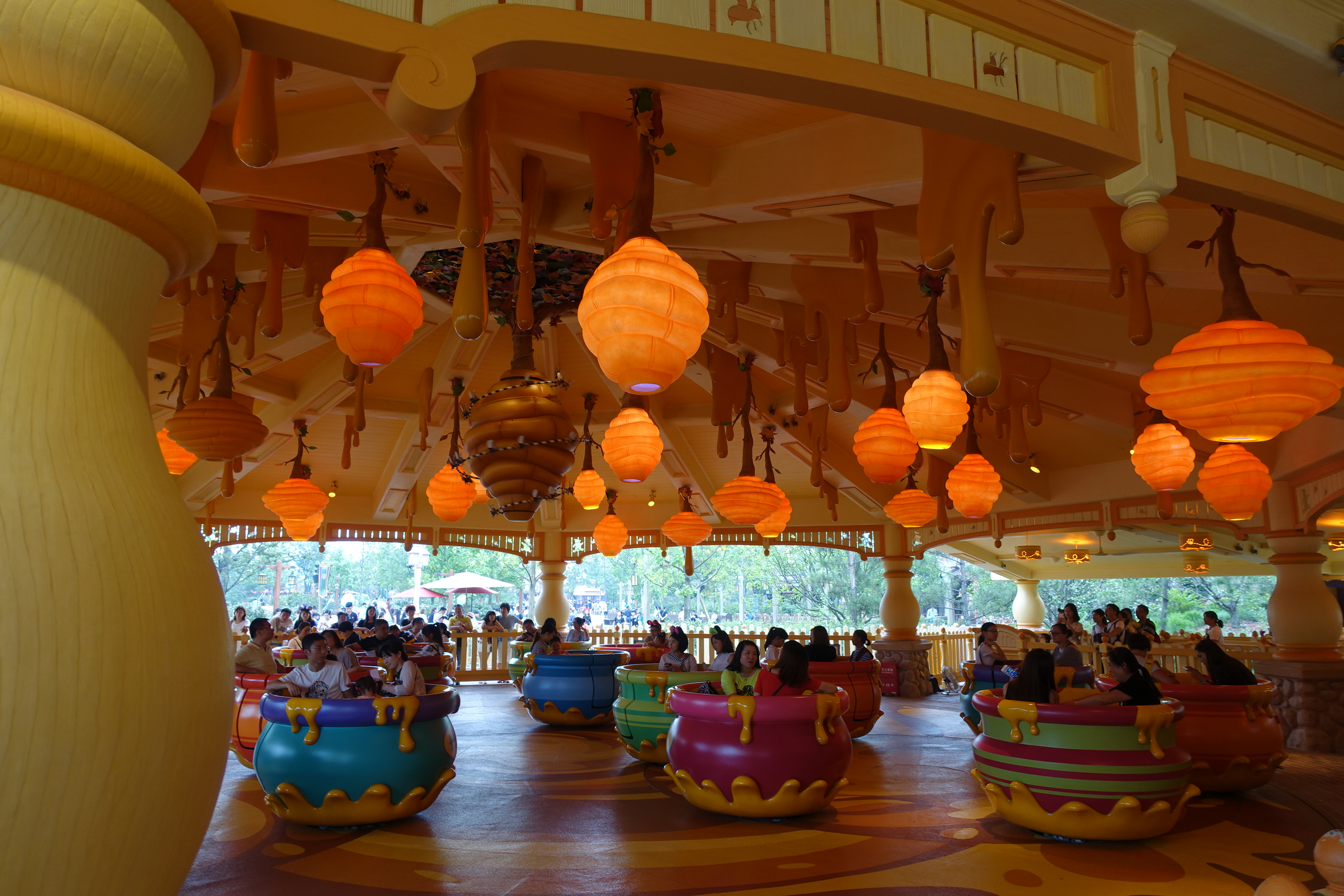 Hunny Pot Spin